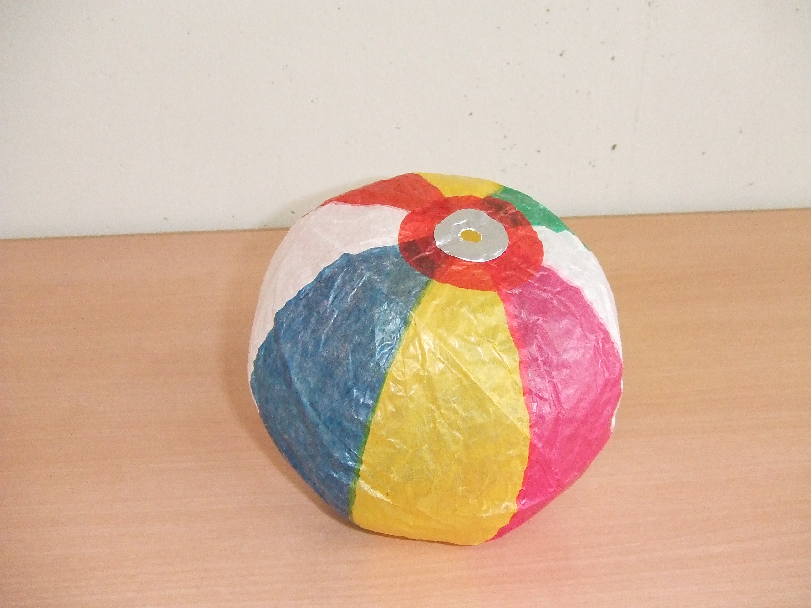 Japanese traditional toy "paper balloon"